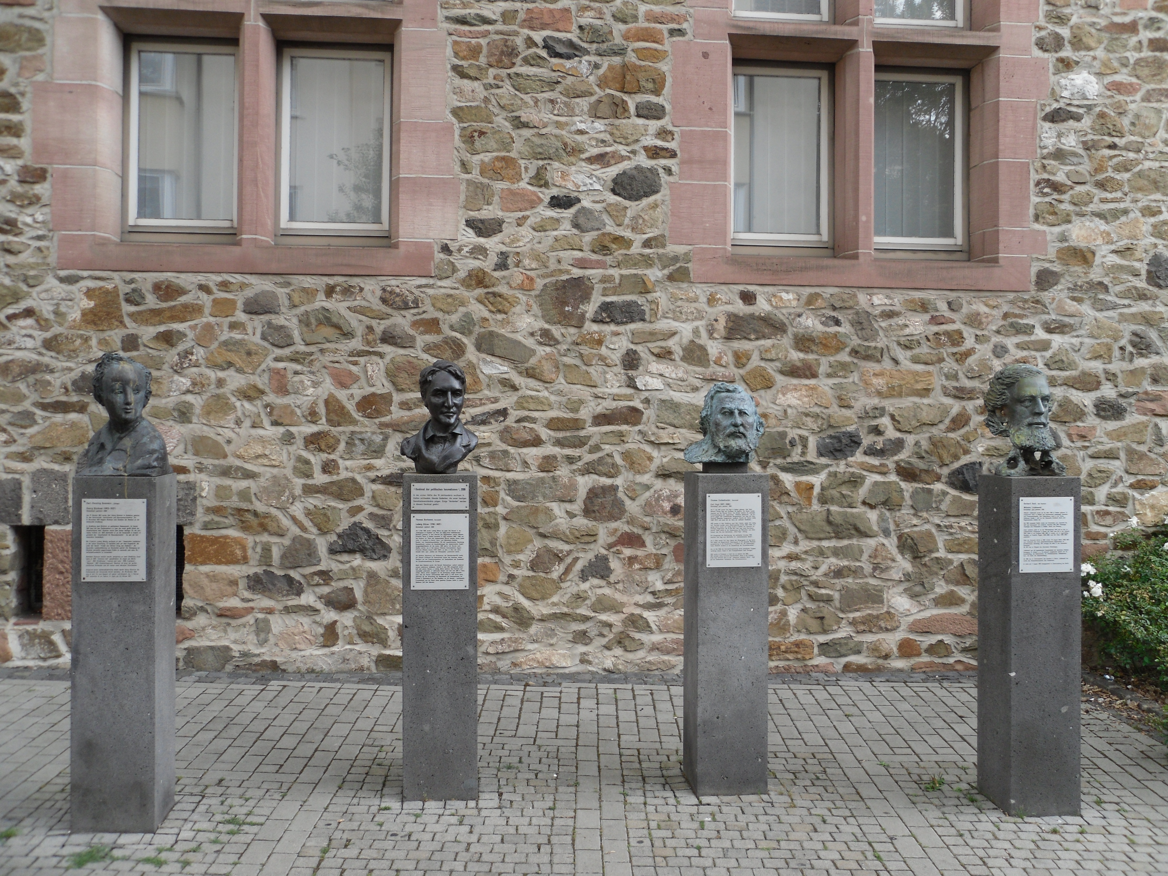 Busts of Büchner, Börne, Vogt, Liebknecht (left to right) at Old Castle, Sonnenstraße, Gießen, Germany